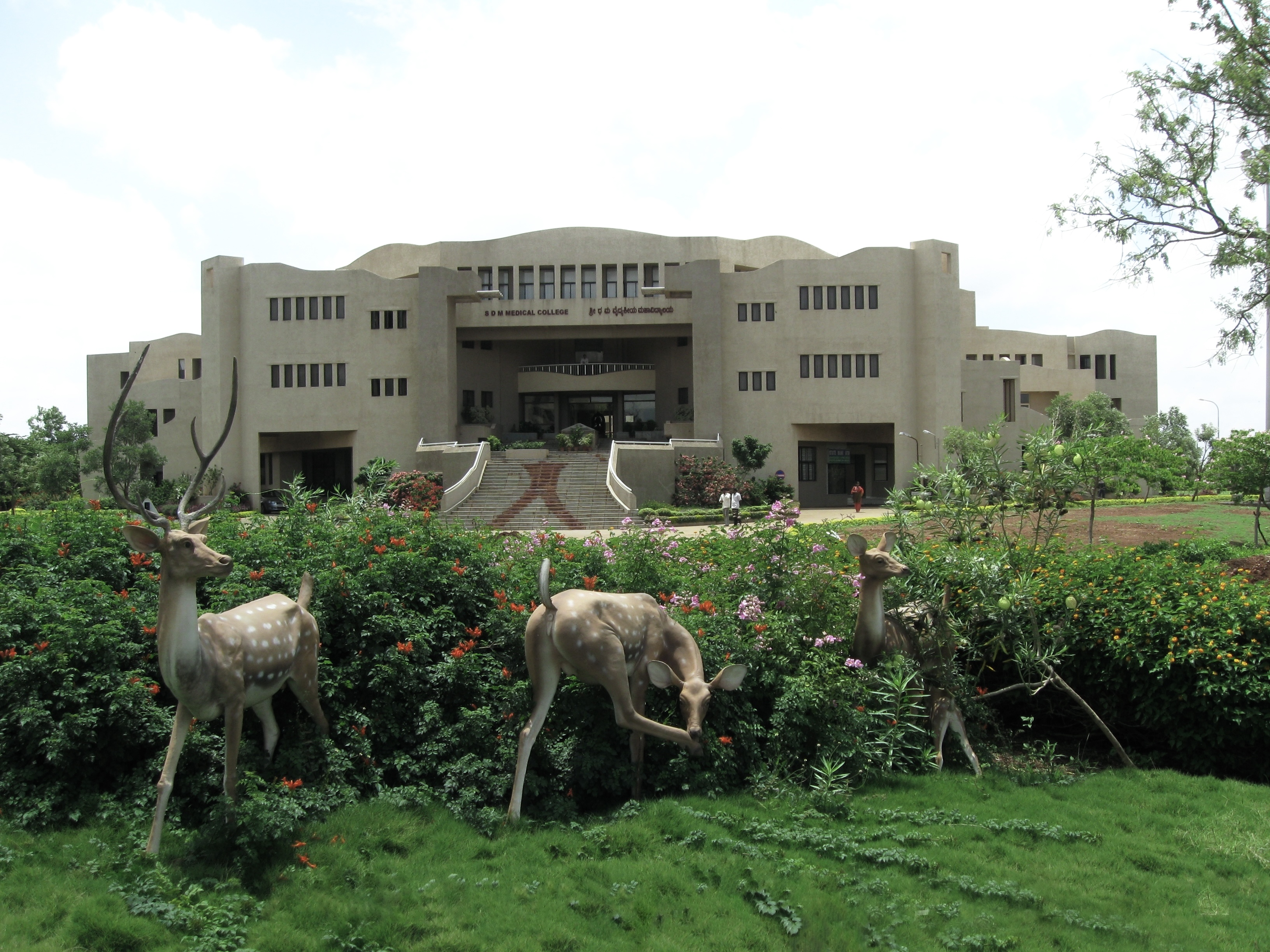 The Main College Building at SDM College of Medical Sciences & Hospital